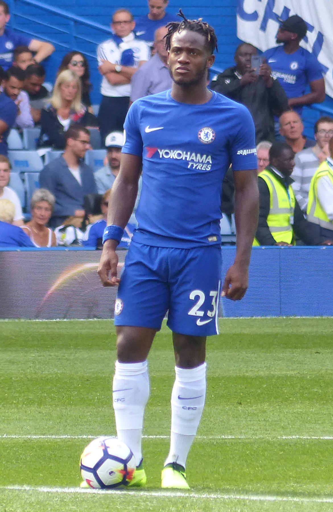 Chelsea F.C's Michy Batshuayi against Burnley at Stamford Bridge, August 2017